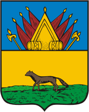 Surgut (Khanty-Mansia), coat of arms (1785)